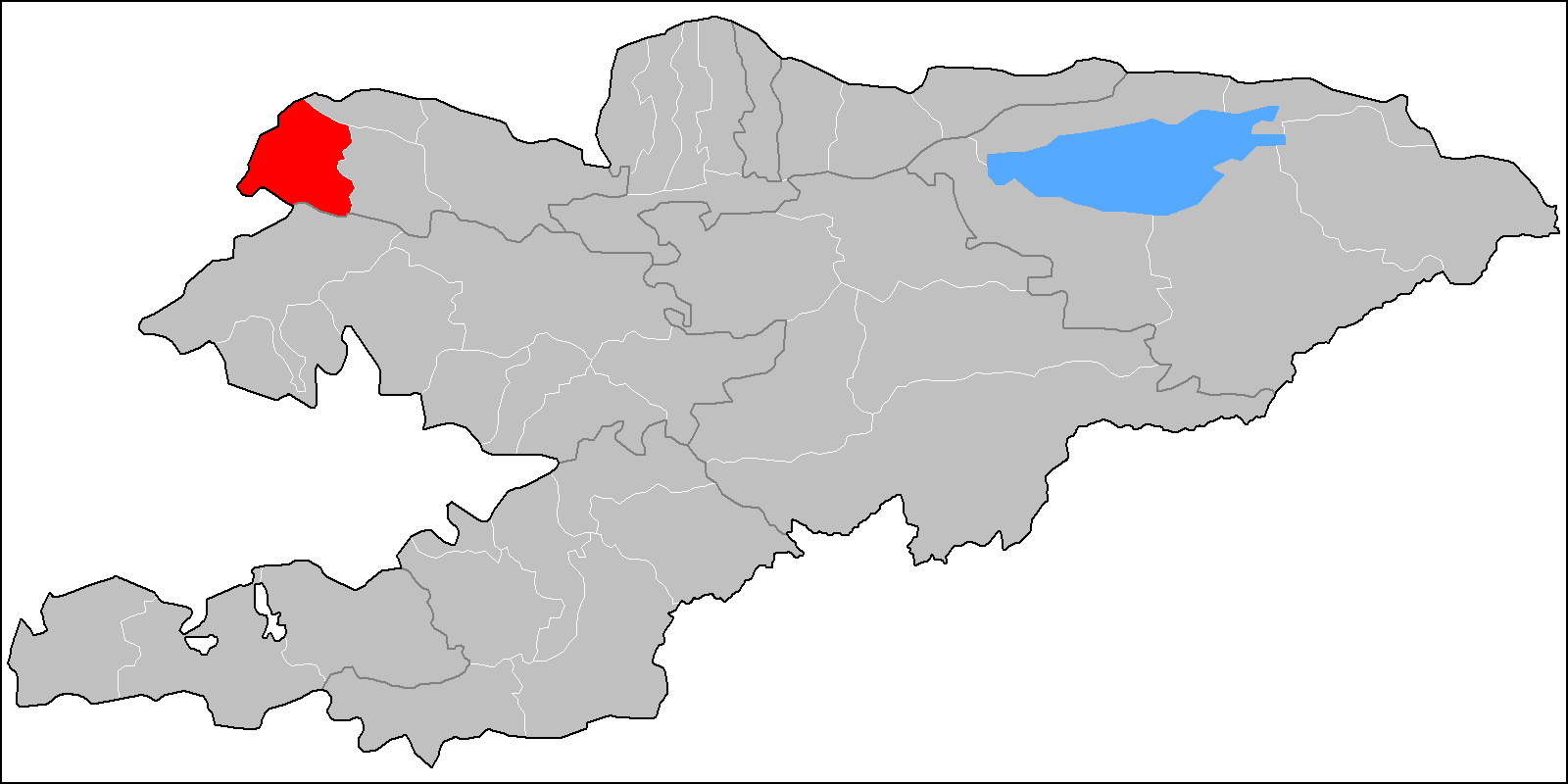 The location of the raion (district) of Kara-Buura in Kyrgyzstan. Based on Image:Kyrgyzstan raions.png